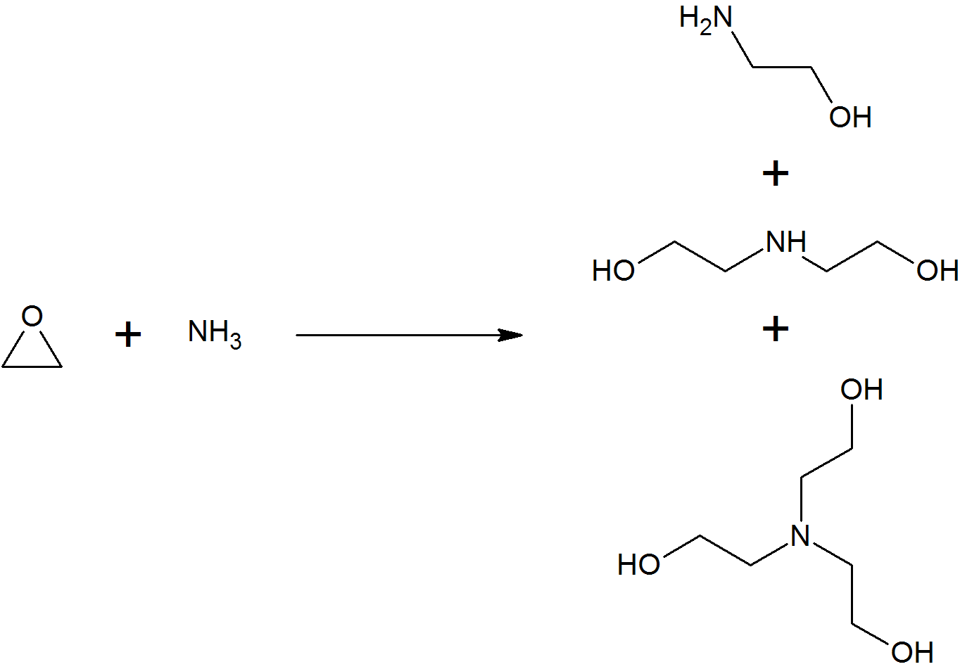 Reaction of ethylene oxide with ammonia to give monoethanolamine, diethanolamine, and triethanolamine